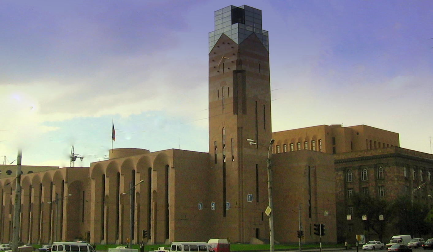 The Mayor's office of Yerevan (WT-shared) GuggiePrg 19:56, 3 January 2010 (EST).